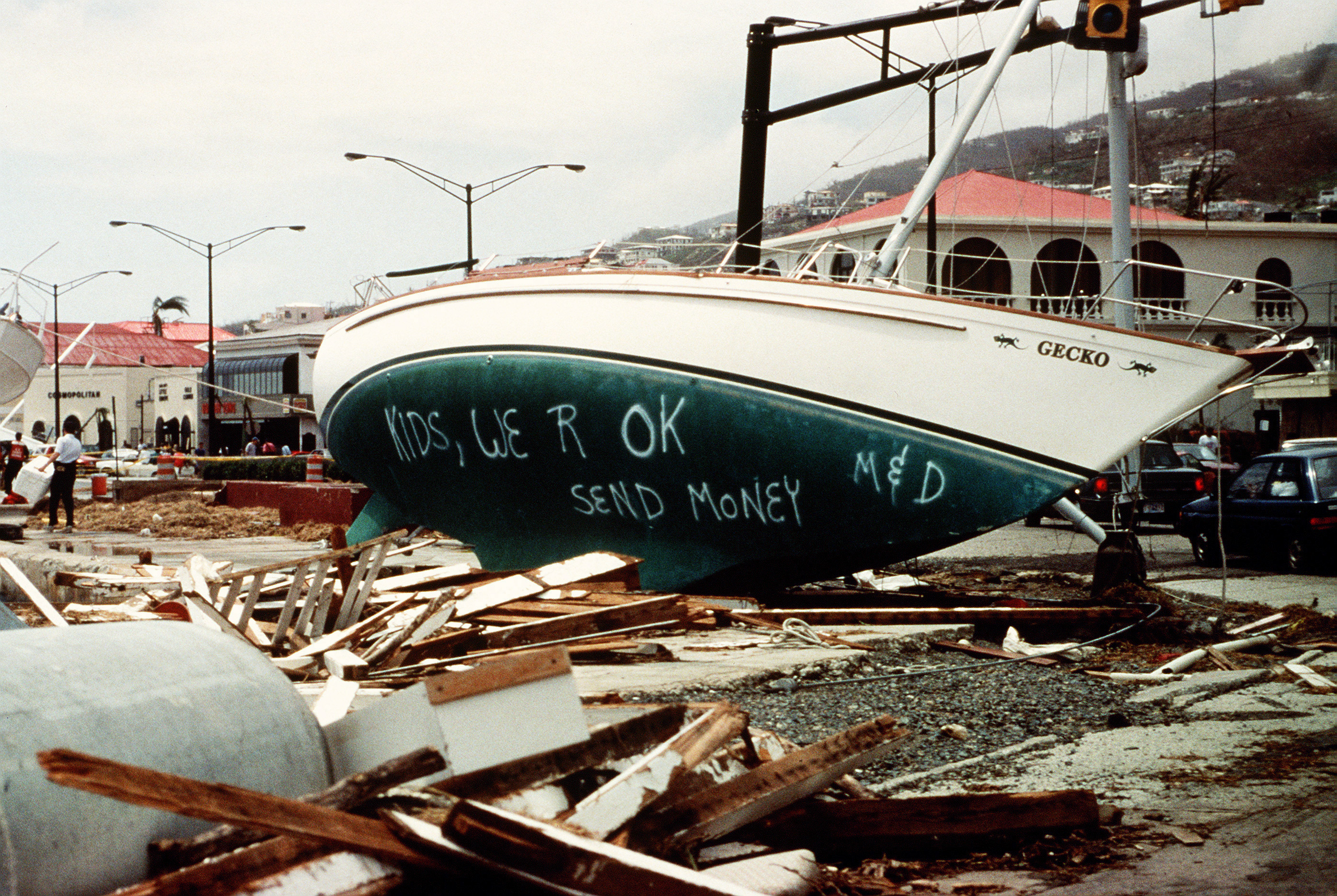 The bottom of a beached sailboat becomes a bulletin board on St. Thomas island from Hurricane Marilyn in 1995. In the United States Virgin Islands.